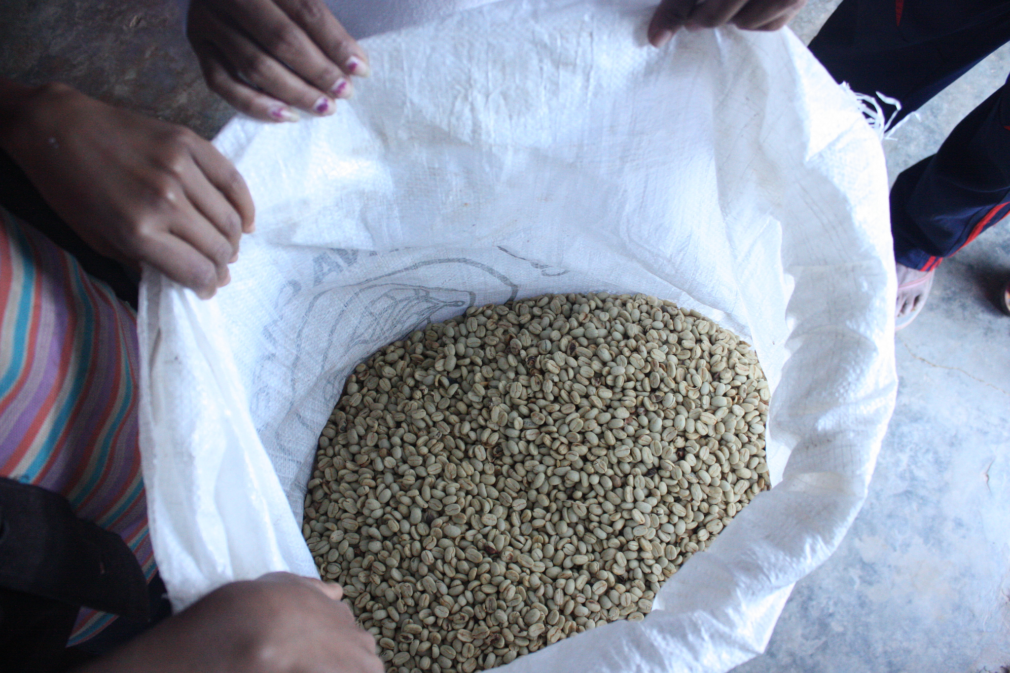 Bag of coffee in Ermera, Timor-Leste